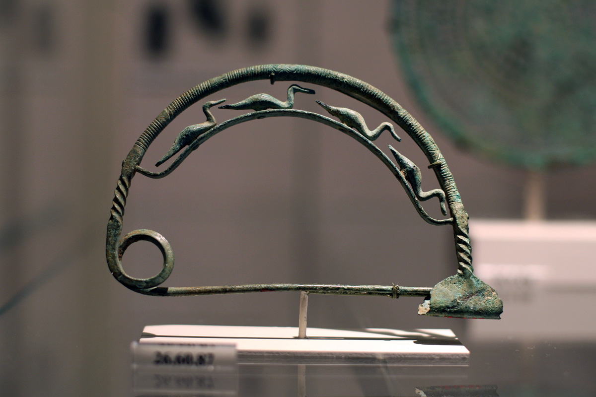 Metropolitan Museum of Art # 26.60.87 Photographer: Katie Chao